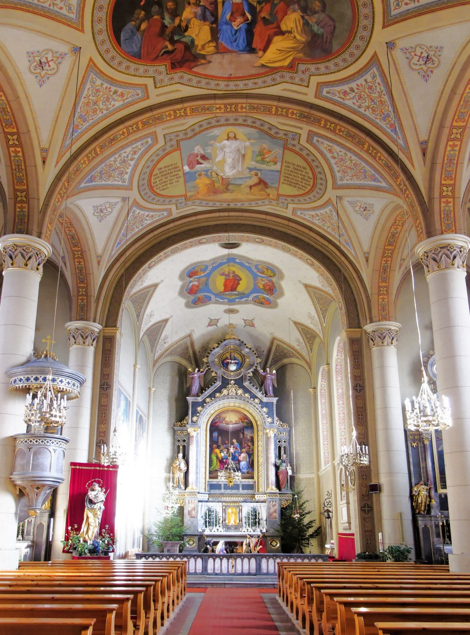 Village Nassereith, Church at Nassereith, inside